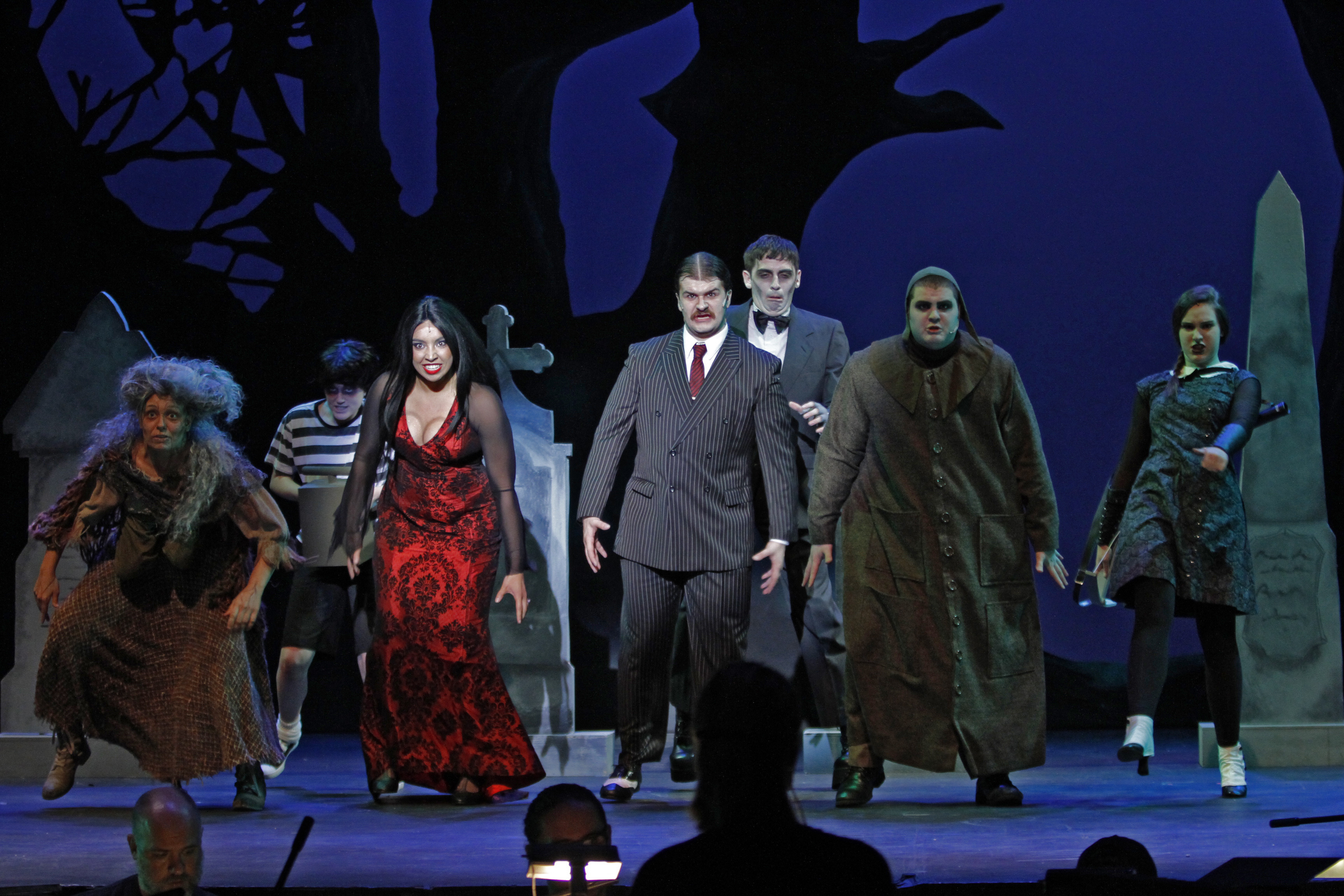 Fester- Christopher Marth Pugsly- Dana Cullinane Morticia- Morgan Wood Wednesday- Leah Windahl Lurch- Jacob Sundlie Gomez- Jack Lebracque Grandma- Aubree Tally Photo by Karl Kuntz